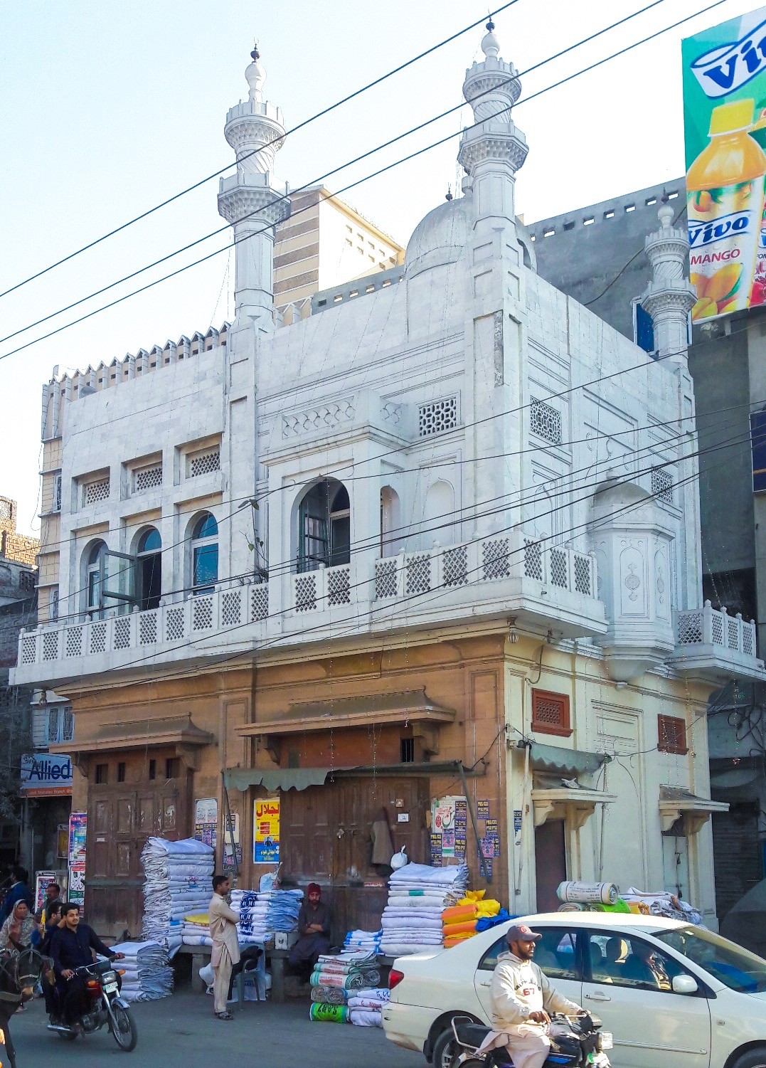 Masjid Shab Bhar, Lahore